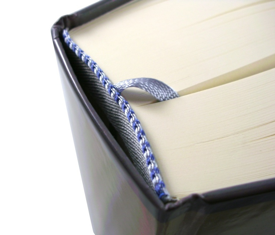 PediaPress hardcover book as seen from above. Endbands.